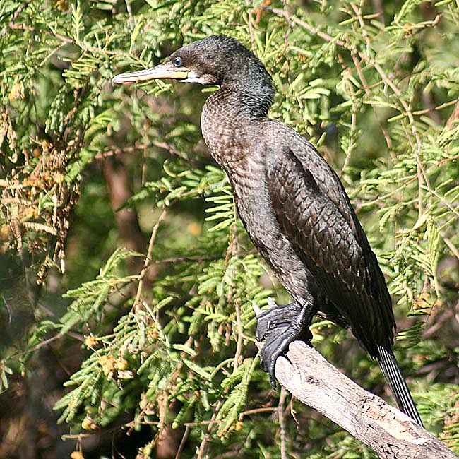 Great Cormorant Phalacrocorax carbo at Bharatpur, Rajasthan, India.